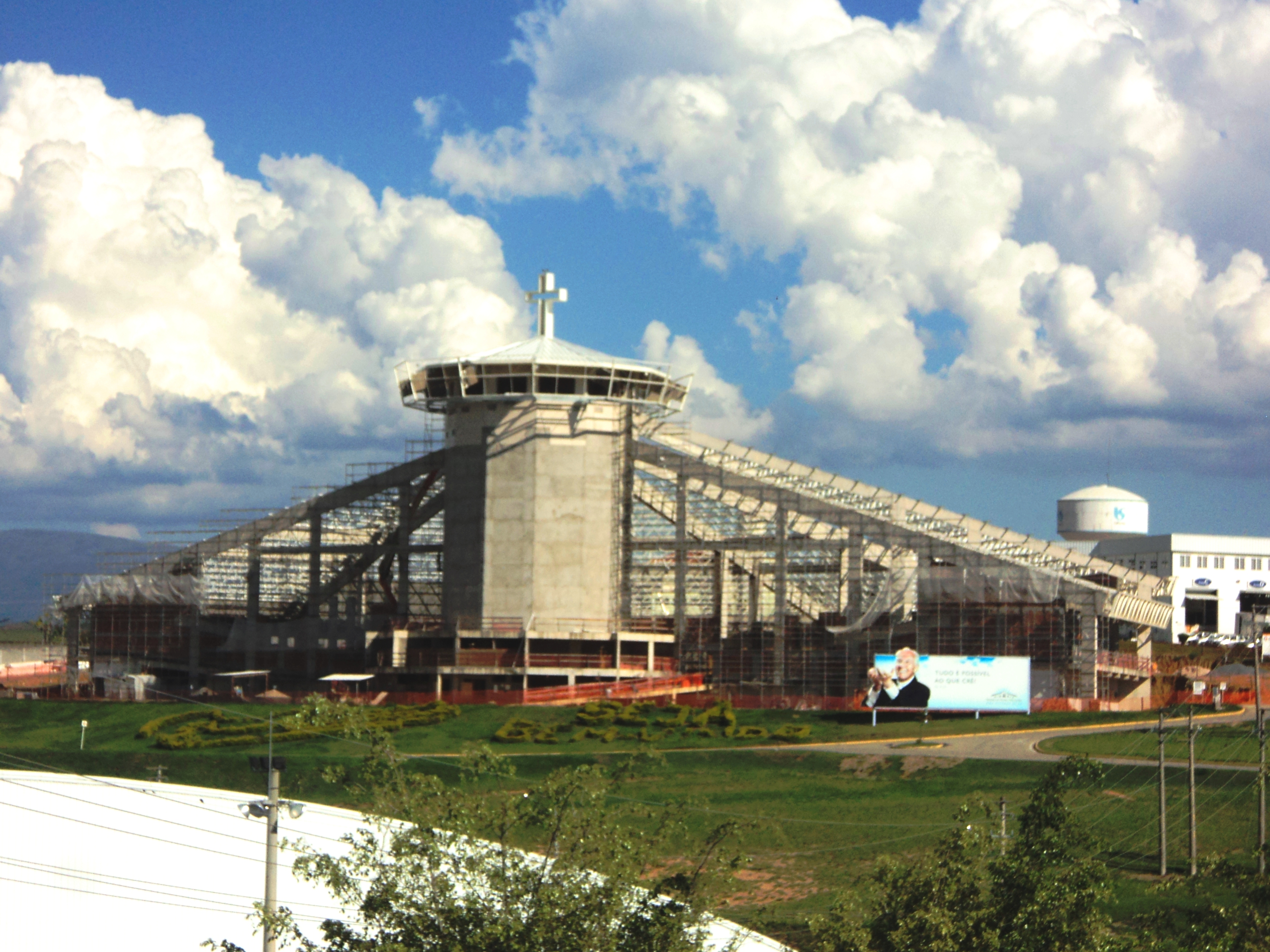 Construction of the Father of mercy Sanctuary at Canção Nova, in Cachoeira Paulista, São Paulo, Brazil.